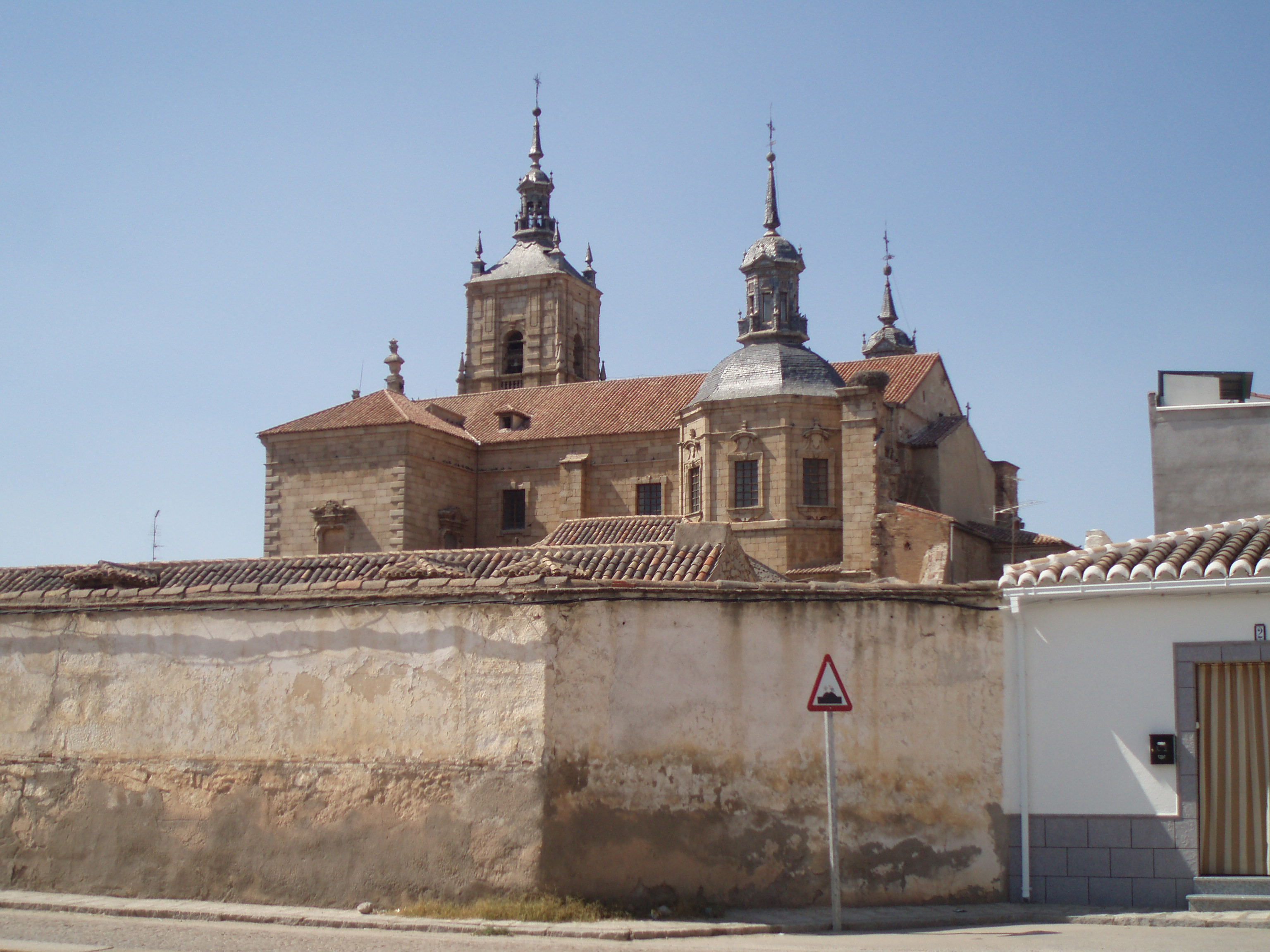 Church major of Orgaz, in province of Toledo. (Spain).